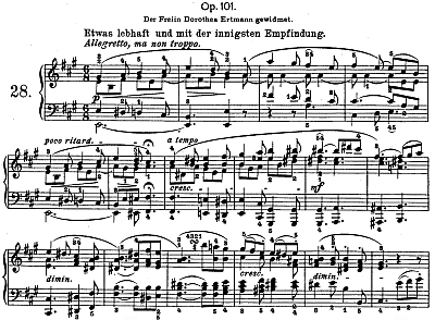 Screenshot of out-of-copyright edition of Beethoven's piano sonatas from Internet Music Score Library Project